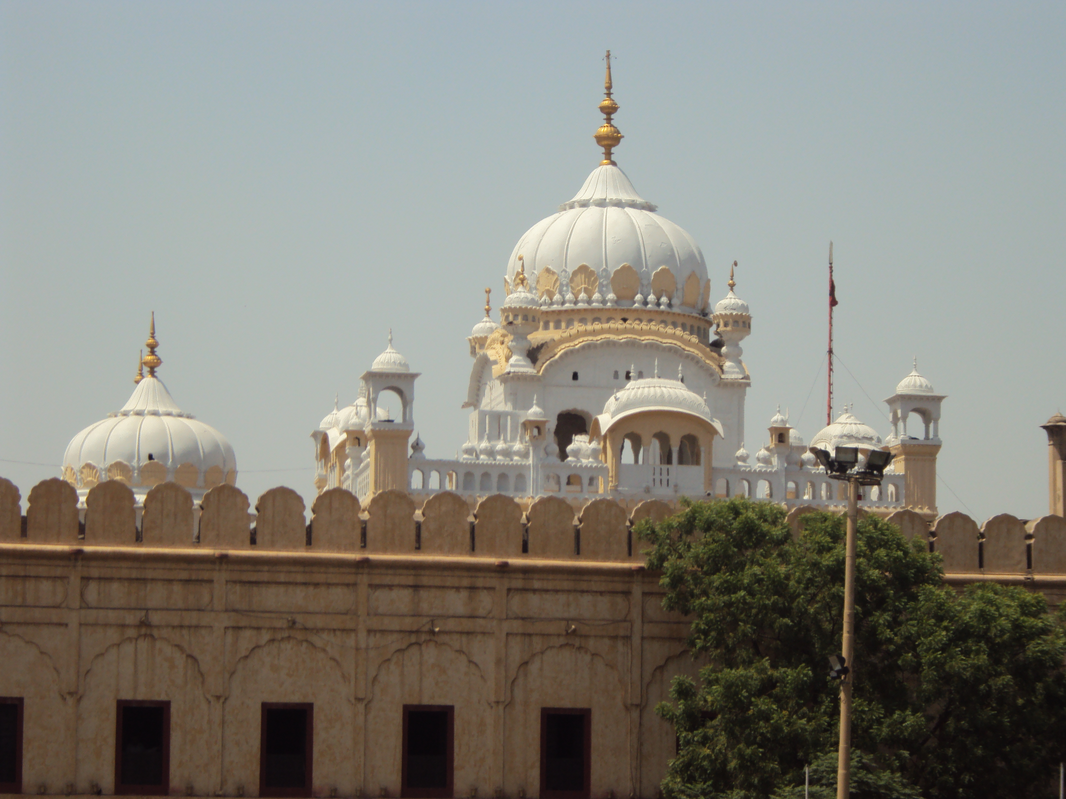 Badshahi Mosque (King’s Mosque) This is a photo of a monument in Pakistan identified as the PB-44